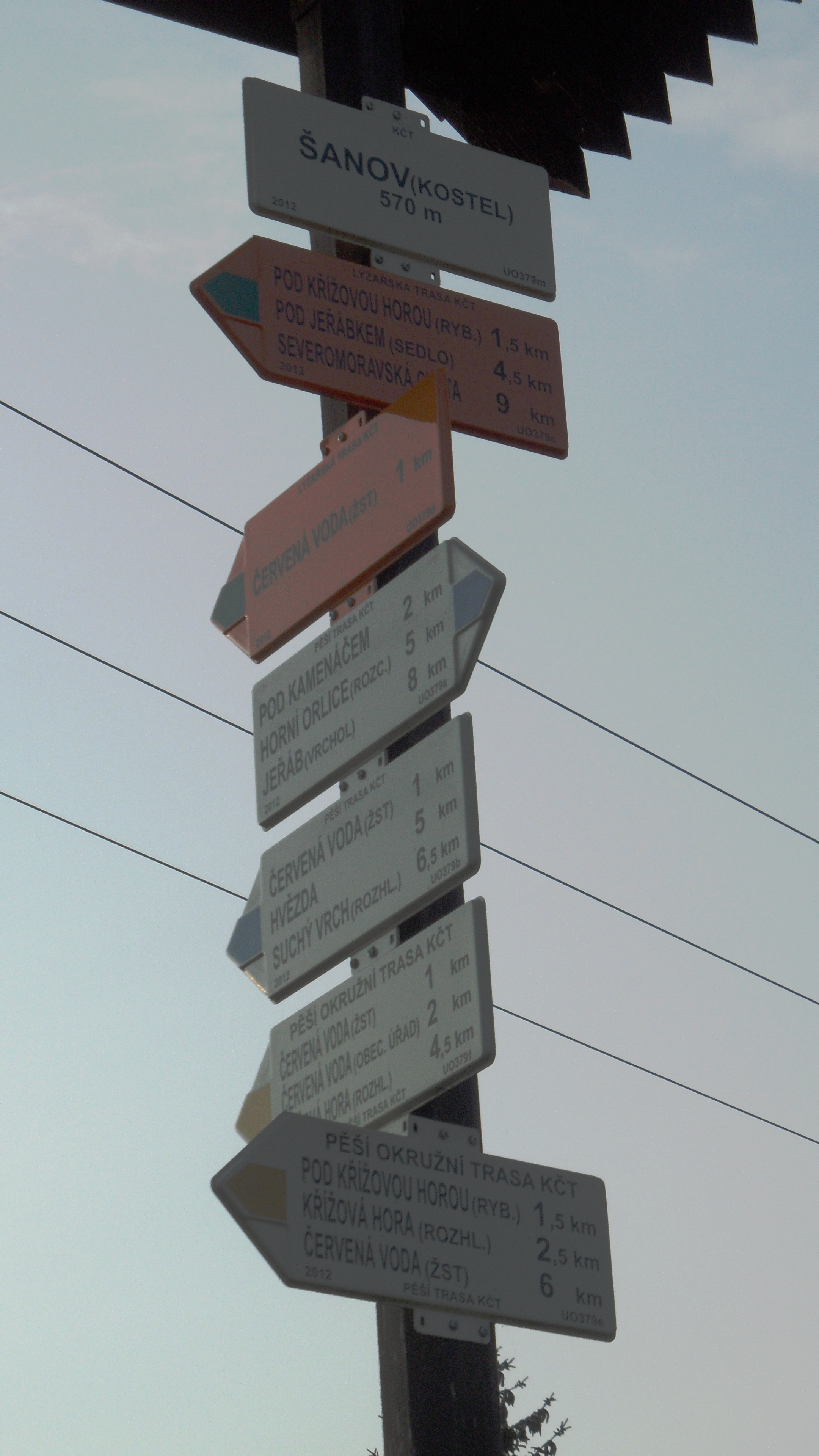 Šanov (Červená Voda) G. Crossroad of Hiking Paths: Šanov (kostel) , Ústí nad Orlicí, the Czech Republic.